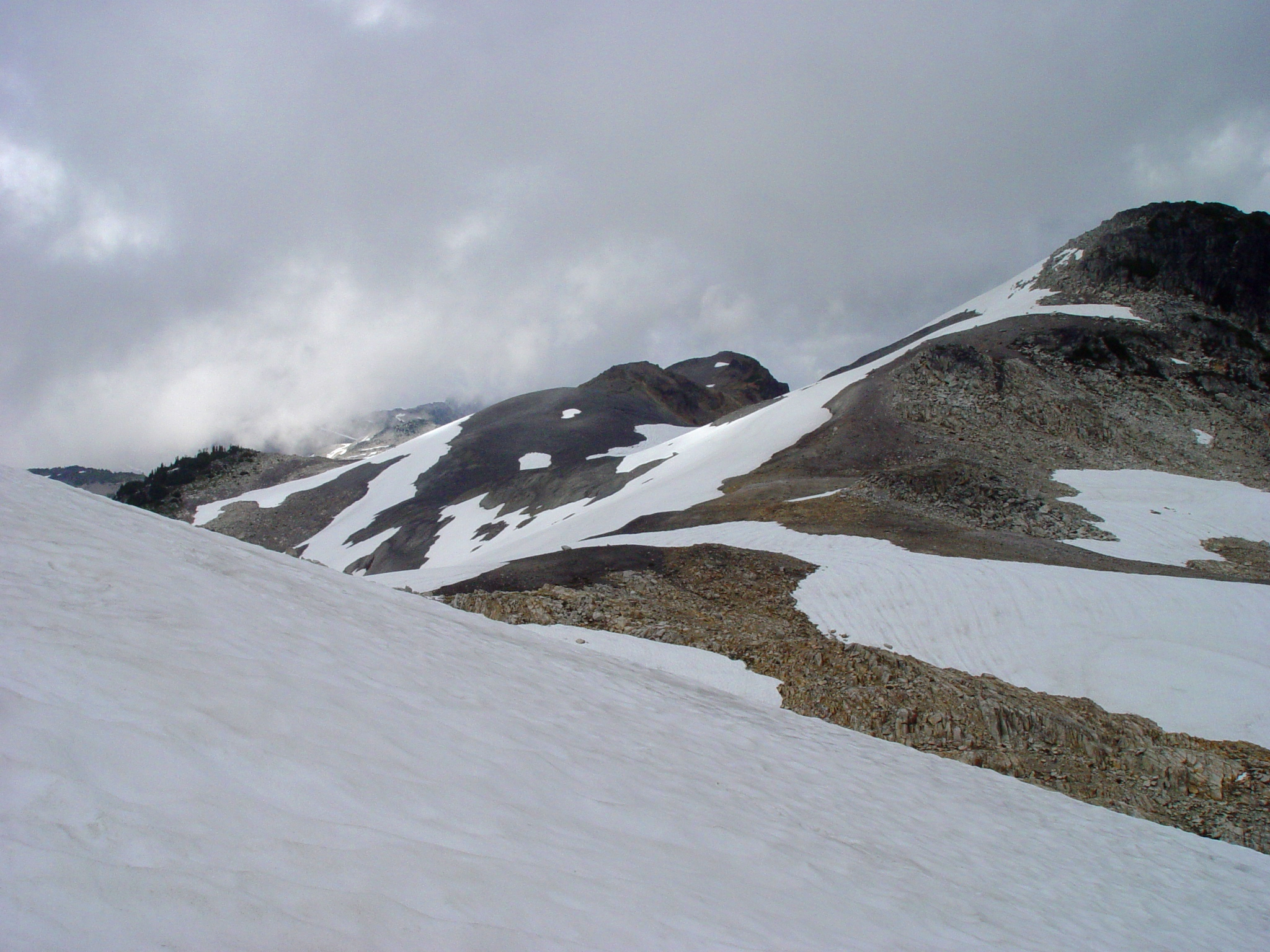 Volcanic cinder at the Mount Cayley volcanic complex, British Columbia, Canada.Volcanic Slag